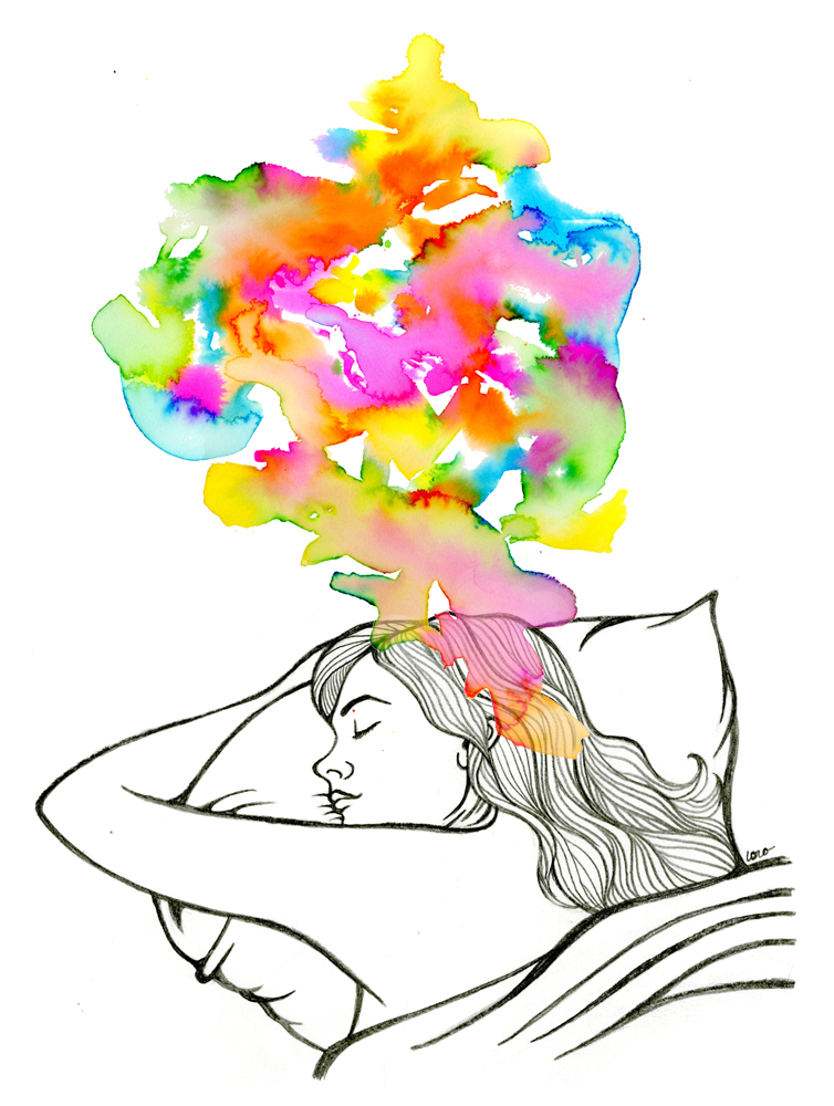 An illustration to showcase the brainactivity during REM-sleep.